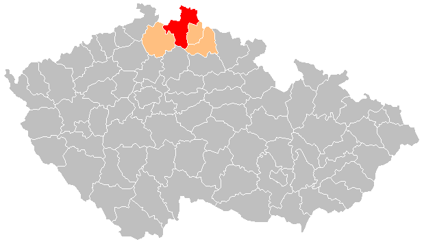 District of Liberec